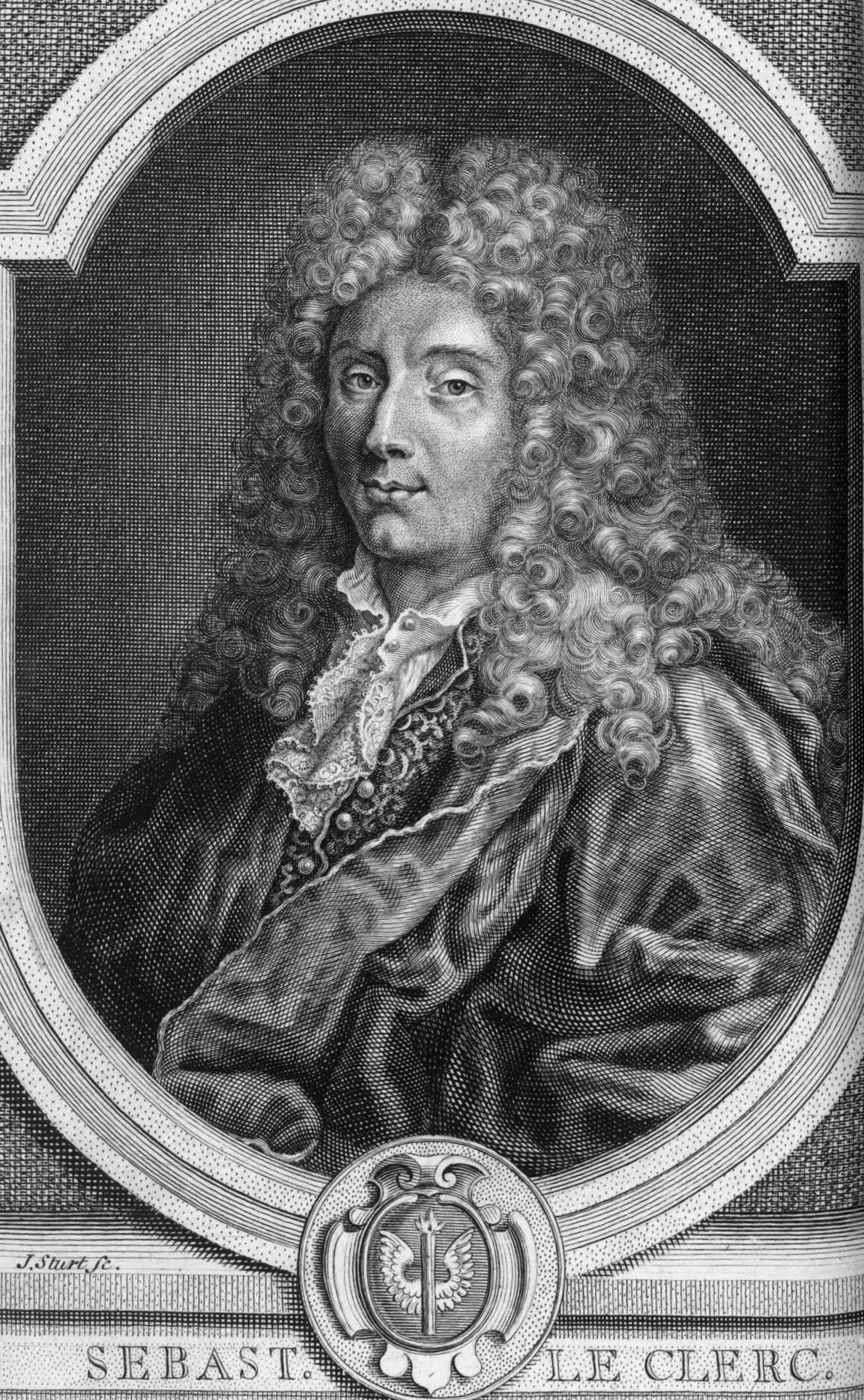 Sebastien Le Clerc 1723-1724